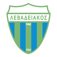 Levadiakos FC logo